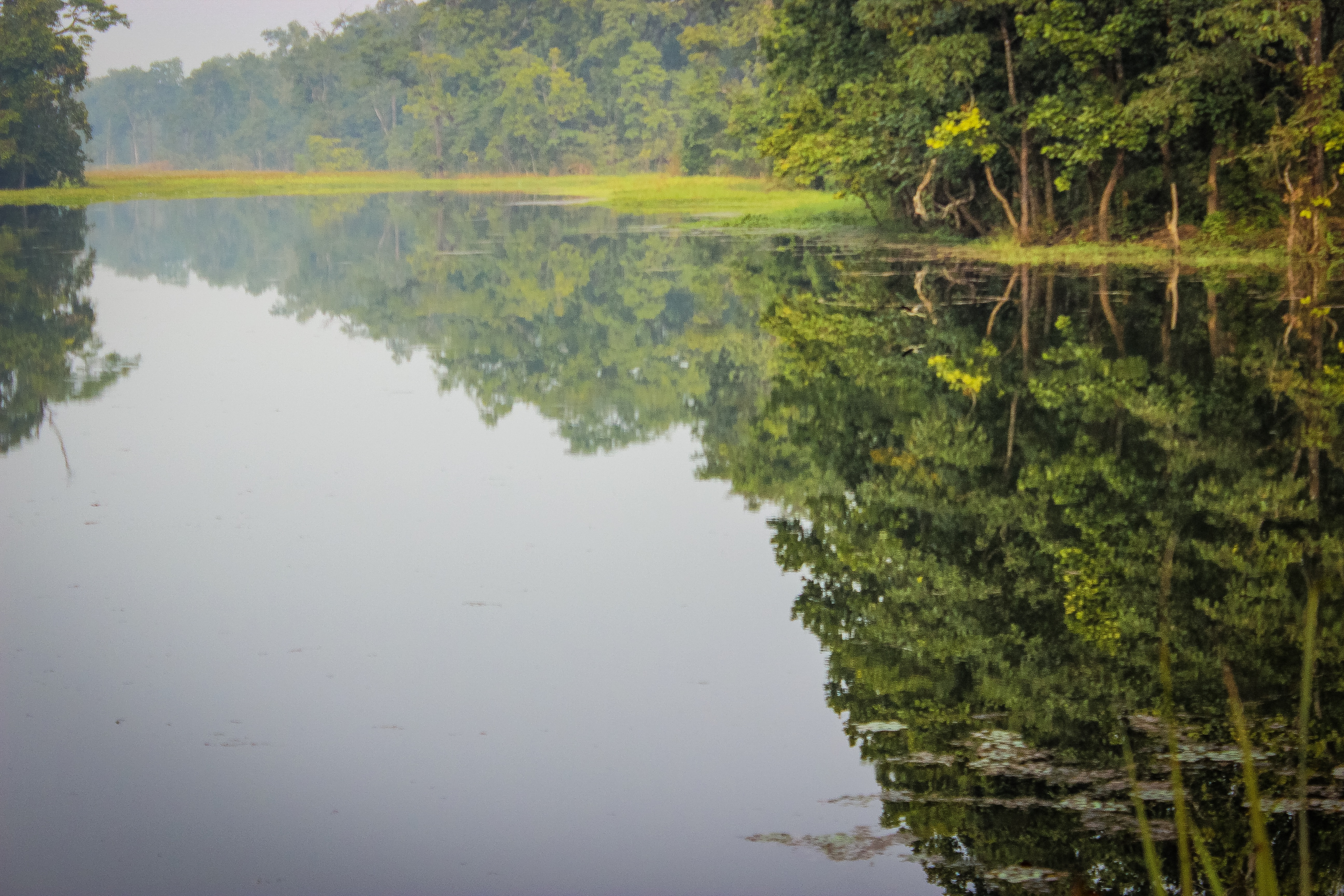 Beautiful Lake in middle of Jungle of Chitwan. Bishazaari taal